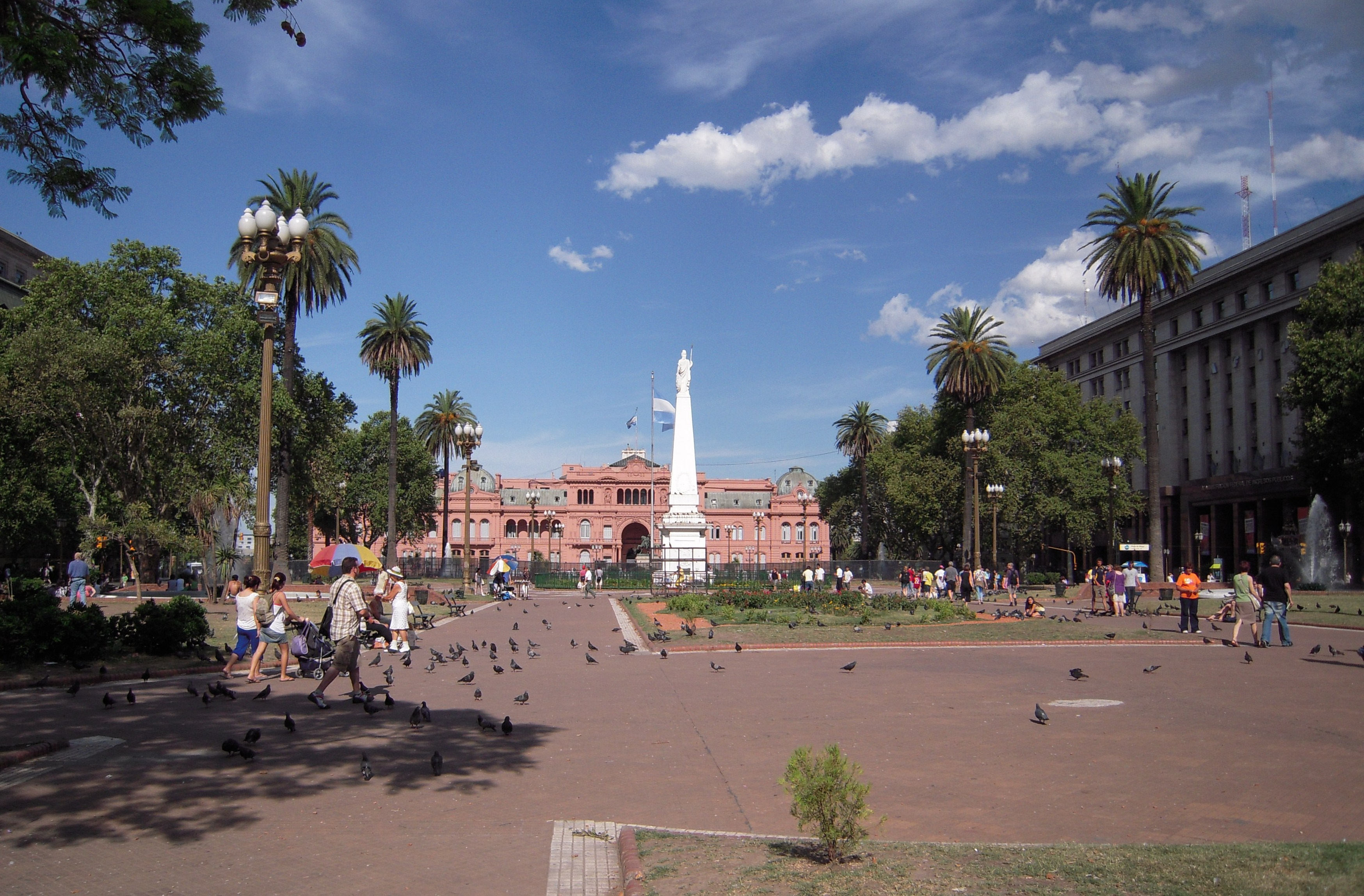 Plaza de Mayo, Buenos Aires, facing Casa Rosada